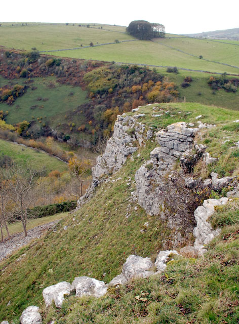 Limestone outcrop above Coombs Dale Typical limestone scenery with virtually dry steep sided valleys and rocky outcrops.